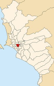 Map of Lima highlighting the La Victoria district in Lima.